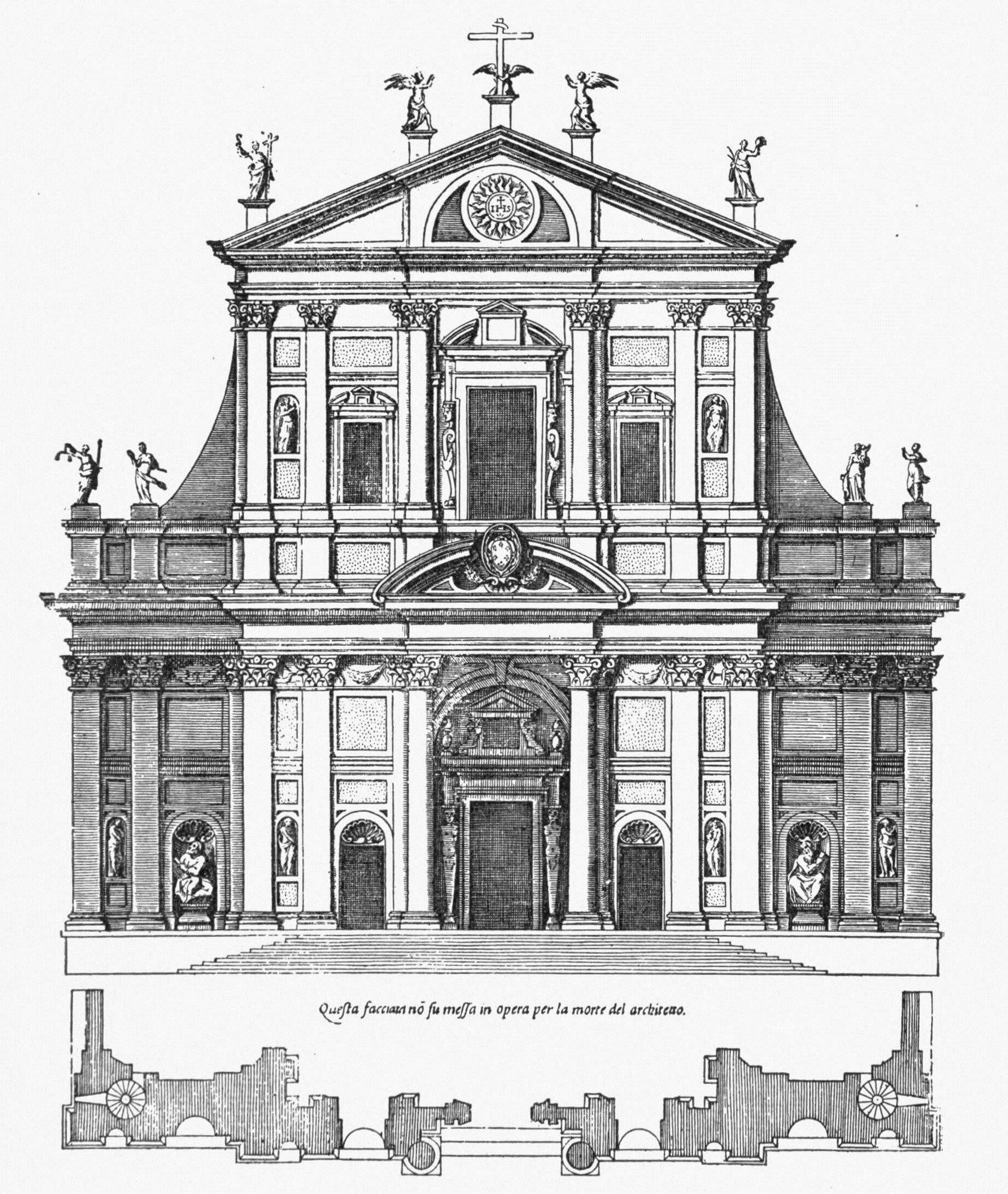 Scan from book 'Character of Renaissance Architecture'